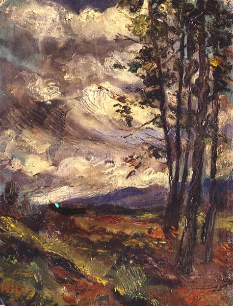 Oleo sobre tela